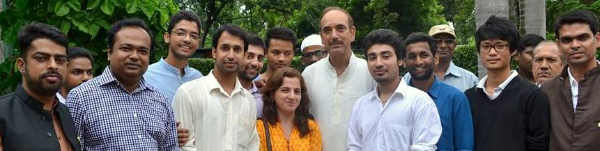 A team of GGF Young Gandhian got a chance to interact with Gandhi Global Family President Shri Ghulam Nabi Azad.